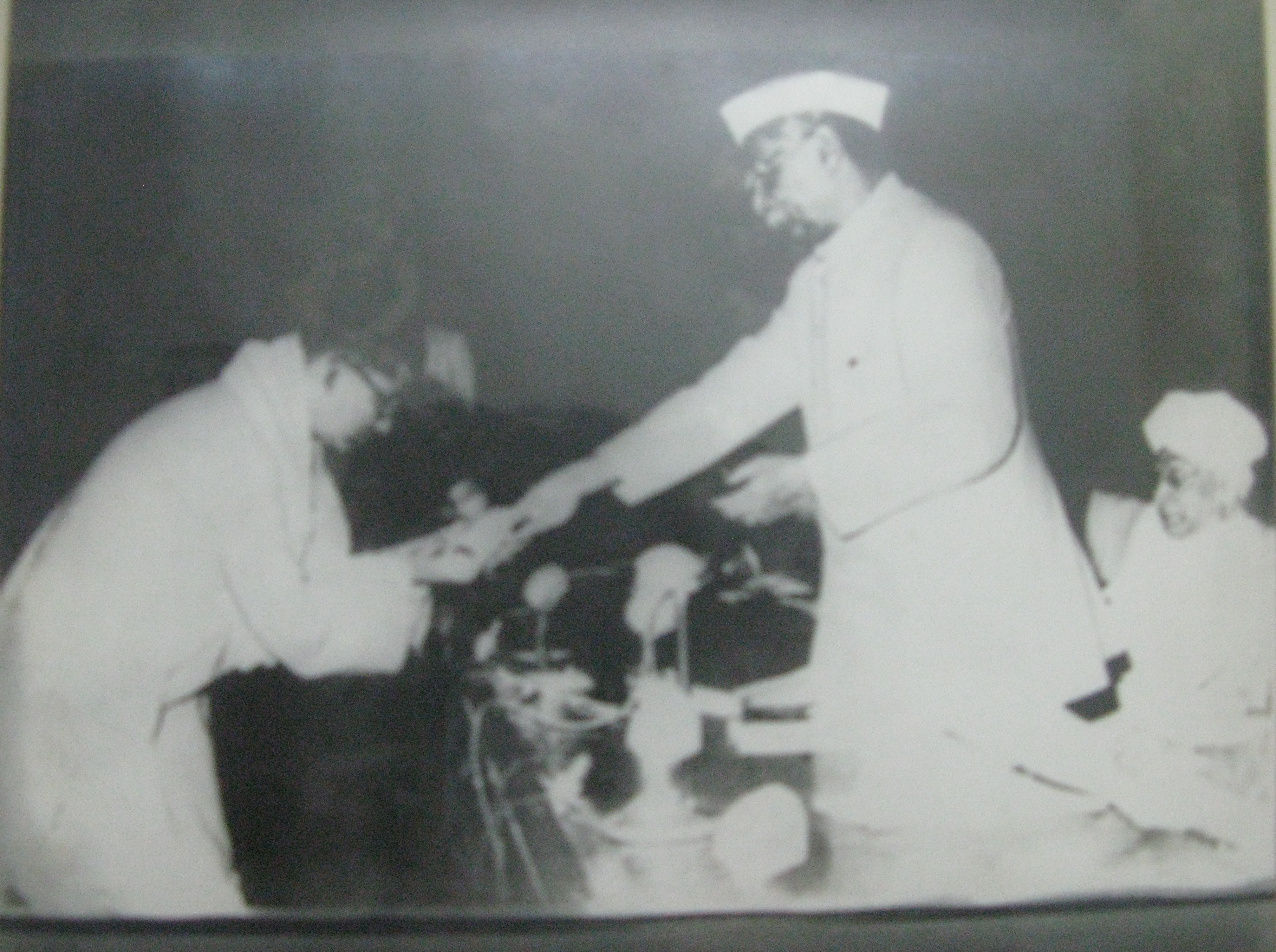 Prabodh Chandra Goswami receiving National Award for Teachers from Dr. Rajendra Prasad - the first president of India